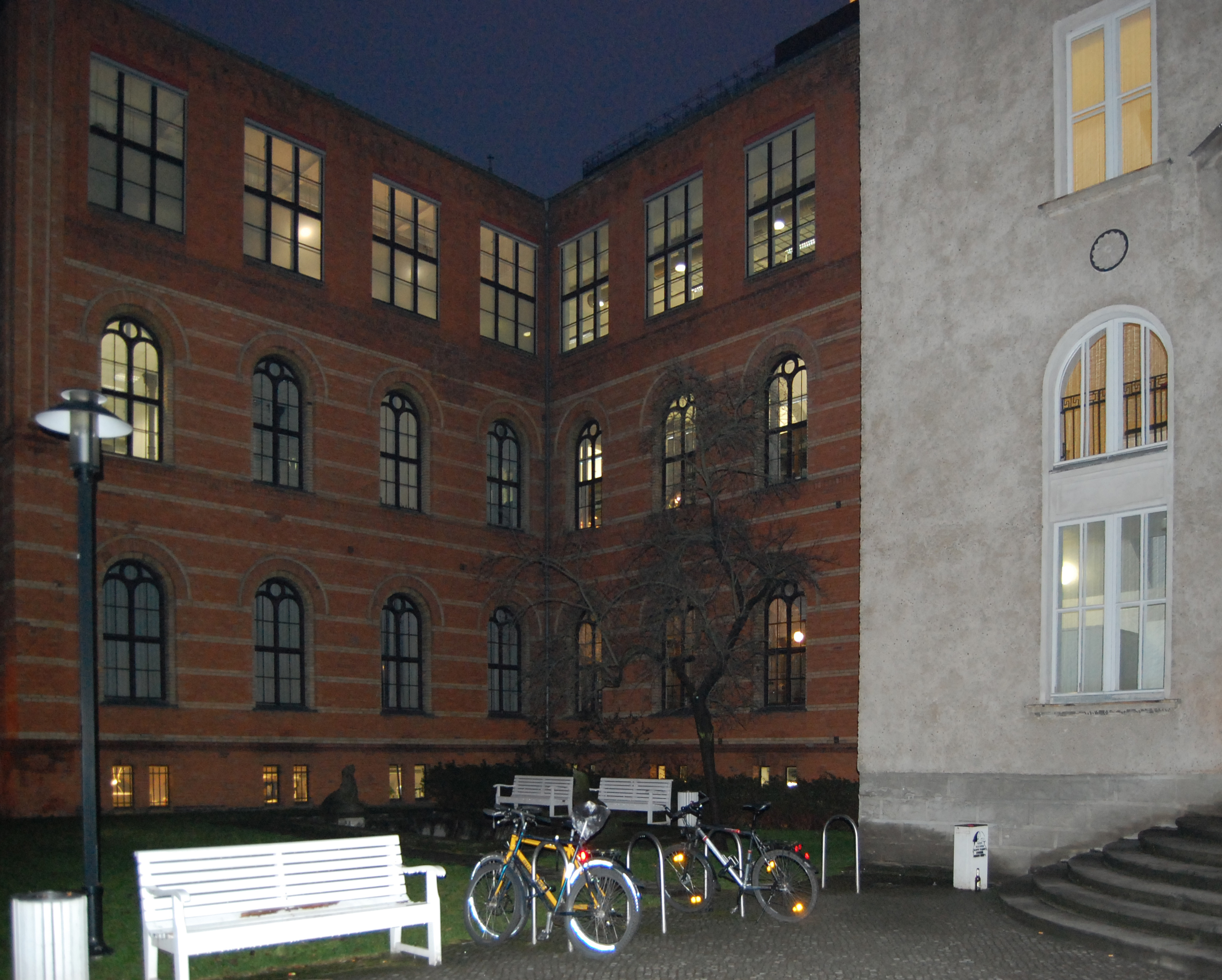 Part of the Waldeyer-Haus, buidling where Center for Anathomy of the University of Berlin is located. Waldeyer was one of the directors of anathomy at University of Berlin. This building survived IIWW.